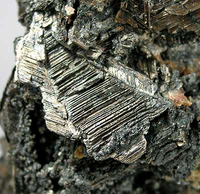 Bismuth Locality: Pöhla-Tellerhäuser Mine, Pöhla, Schwarzenberg District, Erzgebirge, Saxony, Germany (Locality at ) Size: small cabinet, 6.8 x 4.5 x 3.1 cm Bismuth "Federwismuth," as the Germans called it - this is CLASSIC crystallized native bismuth from the Pohla Mine, possibly dating back more than 100 years although they were found in small pockets of the quarry as recently as the 1970s I am told. This particular specimen has a mesmerizingly complex display face with sharp "feathers" of stepped, elongated crystals to 2.5 cm, capping a knoll of ore matrix. For the size and price range, I imagine it would be hard to find a better one easily. From the collection of well-known German collector, Paul Stahl